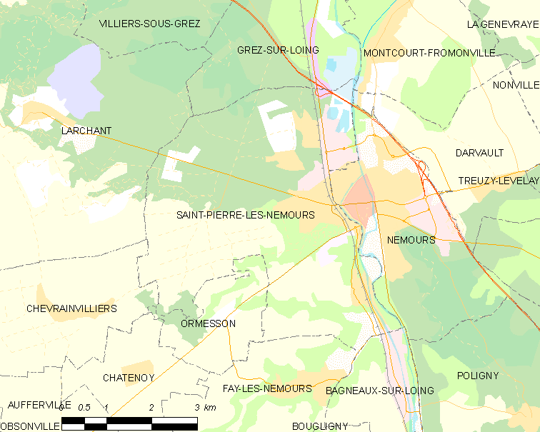 Map of French municipality Saint-Pierre-lès-Nemours